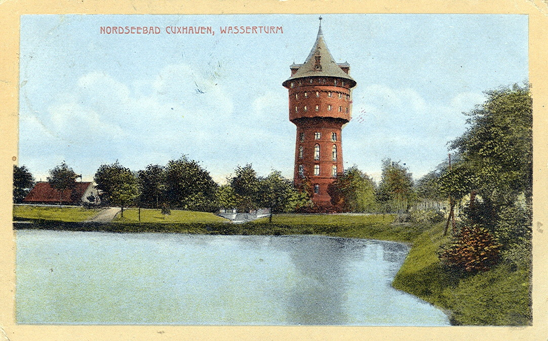 Postcard, dated 13.6.1918 ( SMS Stettin ).Title: "North sea resort Cuxhaven, Water tower"